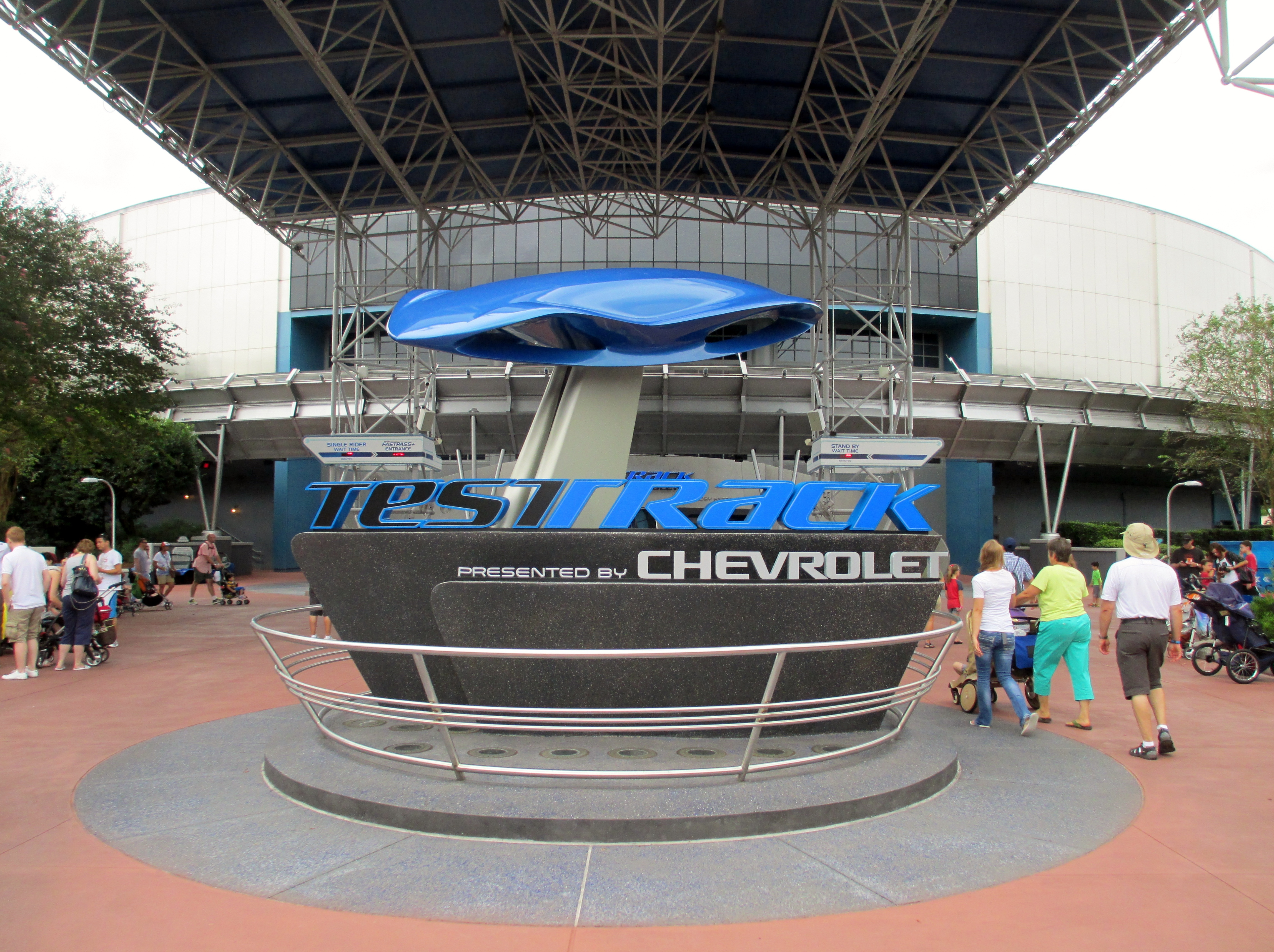 Test Track sign in Epcot.